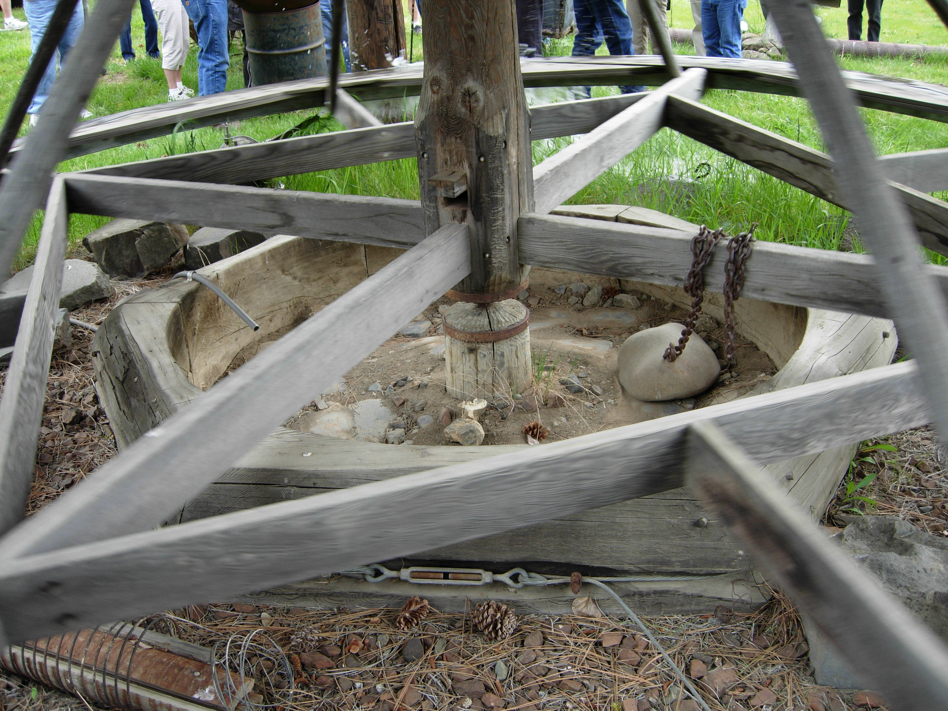 Arrastra demonstration, Liberty WA. The arrastra turns dragging the rock...